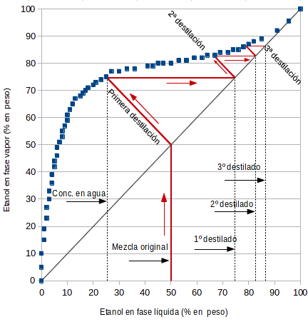 Raileigh destilation of an initial mixture of 50%wt of ethanol. Experimental thermodynamic data: CRC Handbook of Chemistry 44th ed., p2391 (